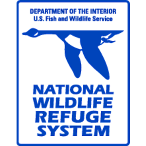 Logo of the National Wildlife Refuge Systems